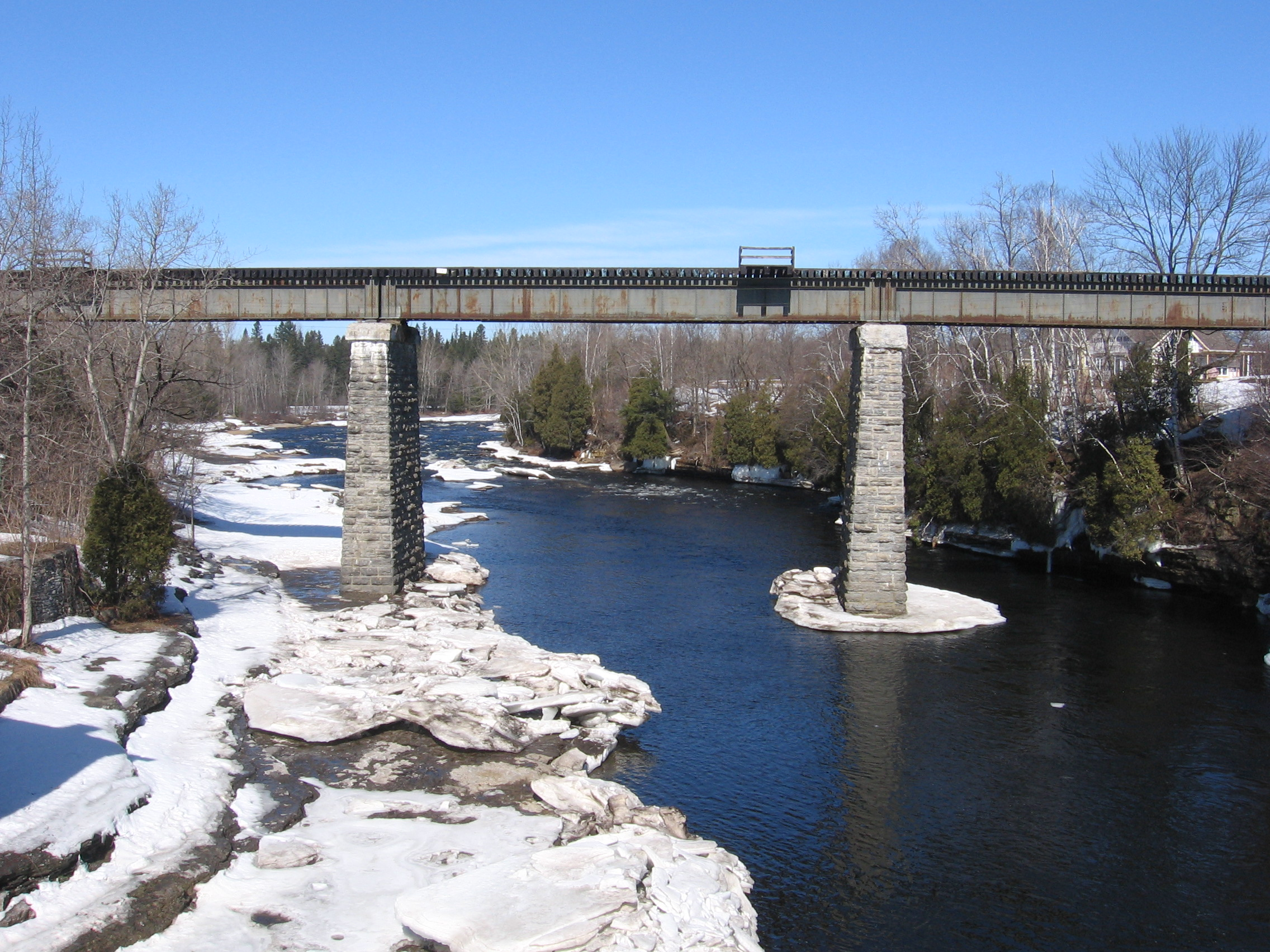 Pont-Rouge Rairoad Bridge